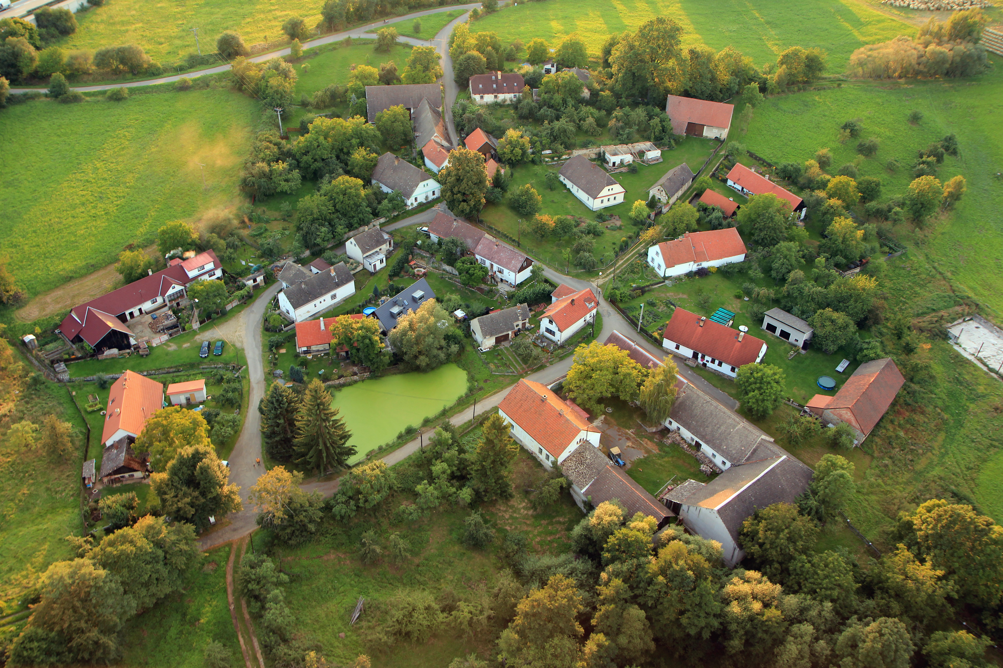 Aerial view of Bělčice, part of Ostředek village, Czech Republic